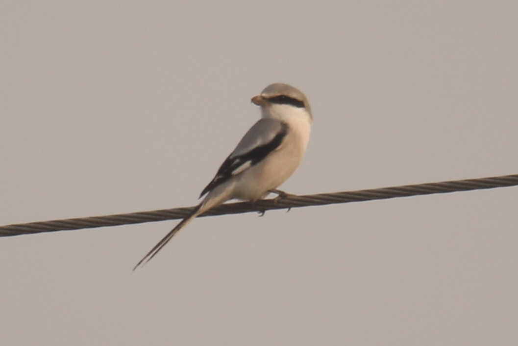 Uncommon and greatly outnumbered by its Long-tailed cousins. Jiangxi Province 楔尾伯劳在江西省